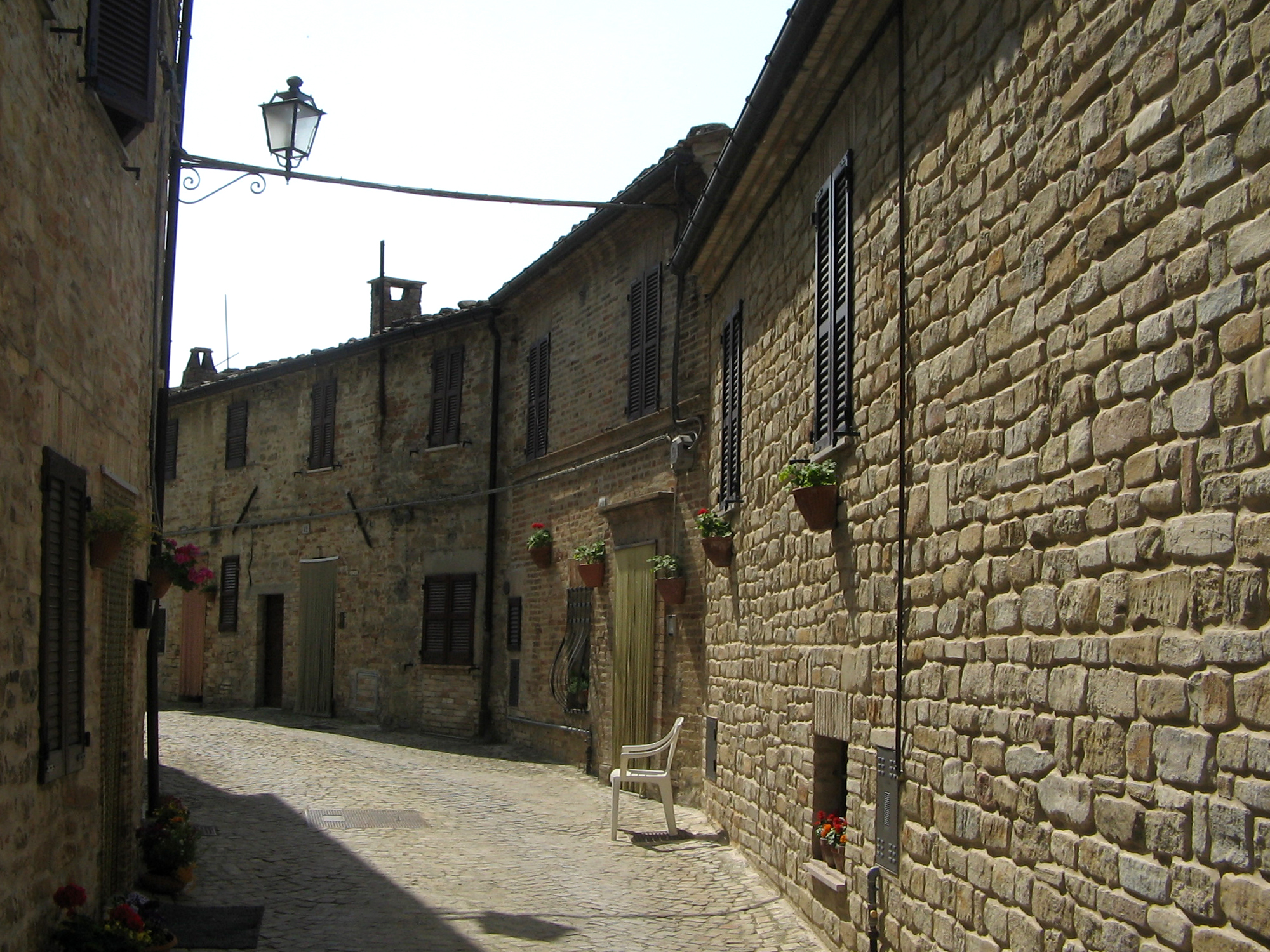 Montelparo (FM): Castle Street